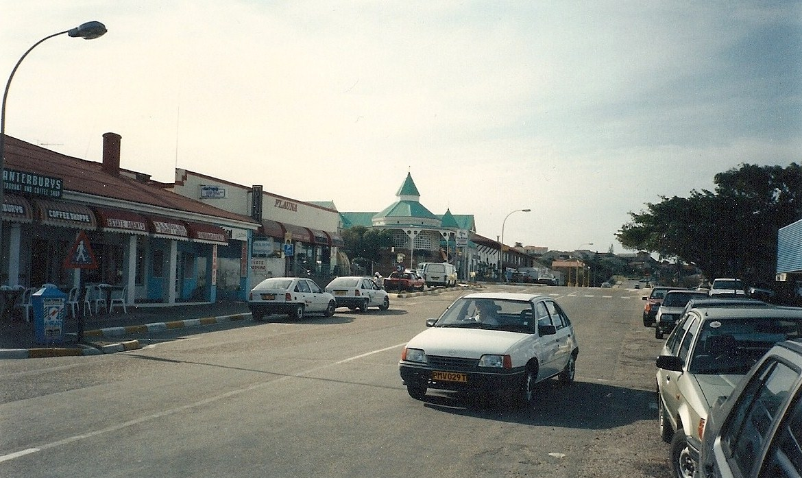 Jeffrey's Bay, Eastern Cape